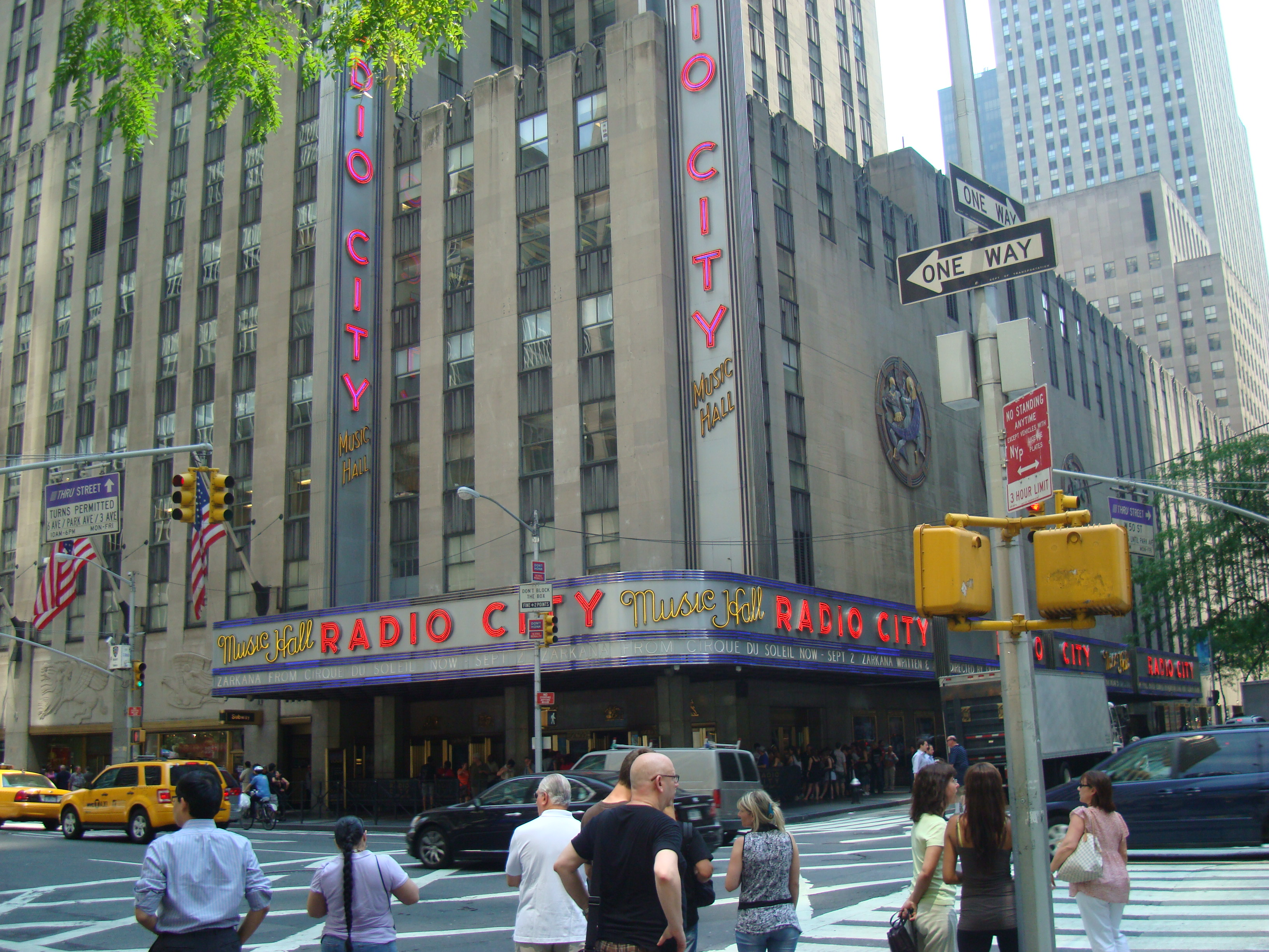 Radio City Music Hall, Rockefeller Center, Manhattan, NYC